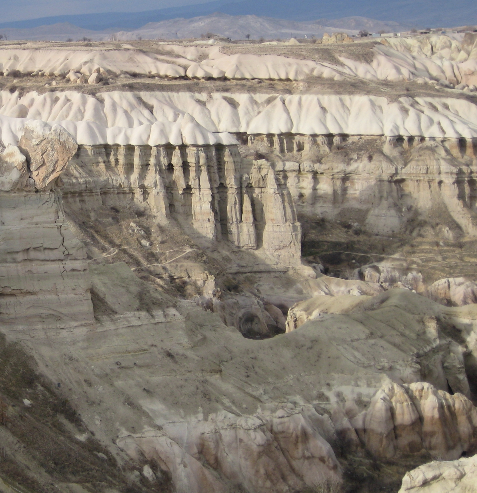 A unnamed valley 3km near Uçhisar with perfect view of geological structure